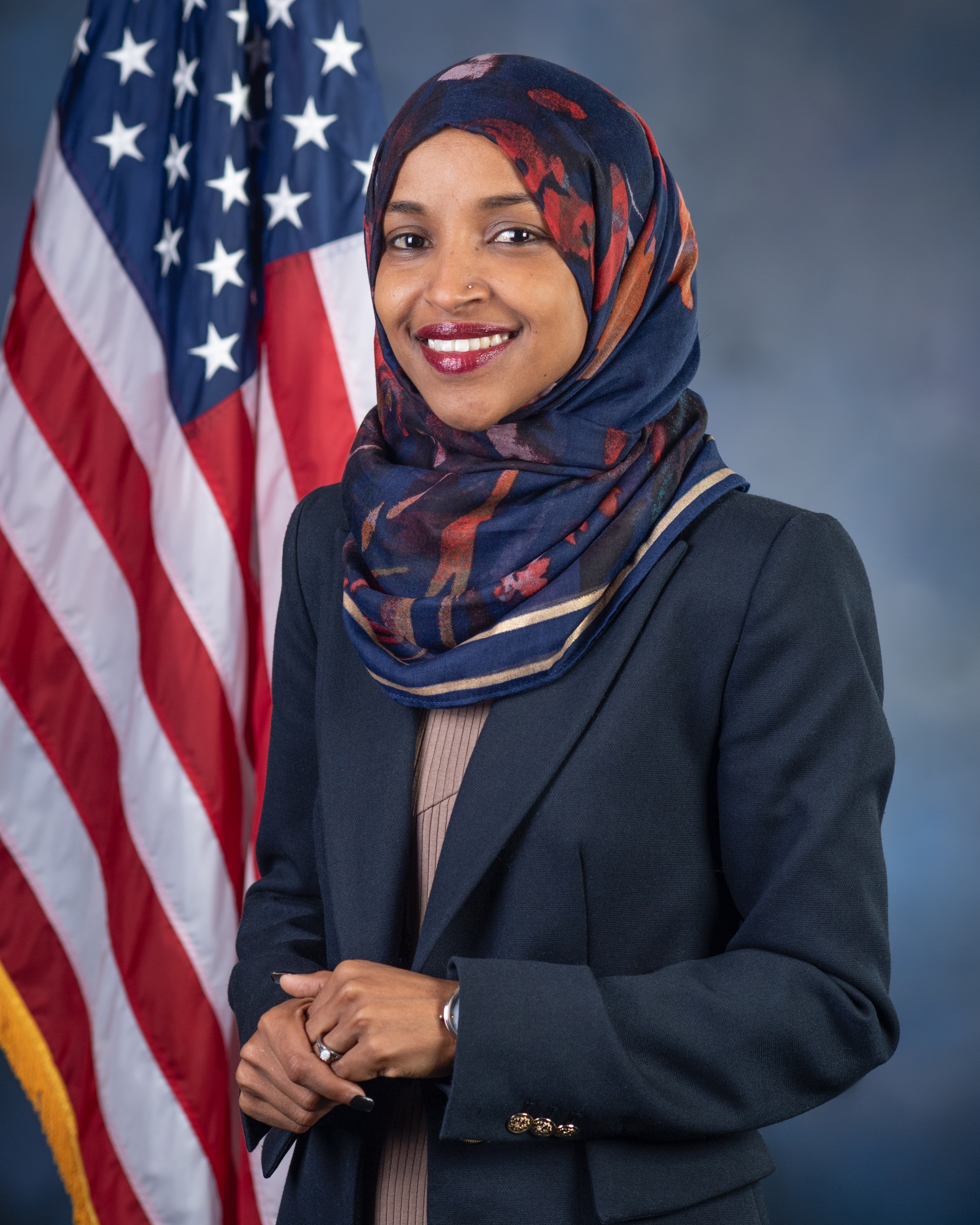 Rep. Ilhan Omar (D-MN05)